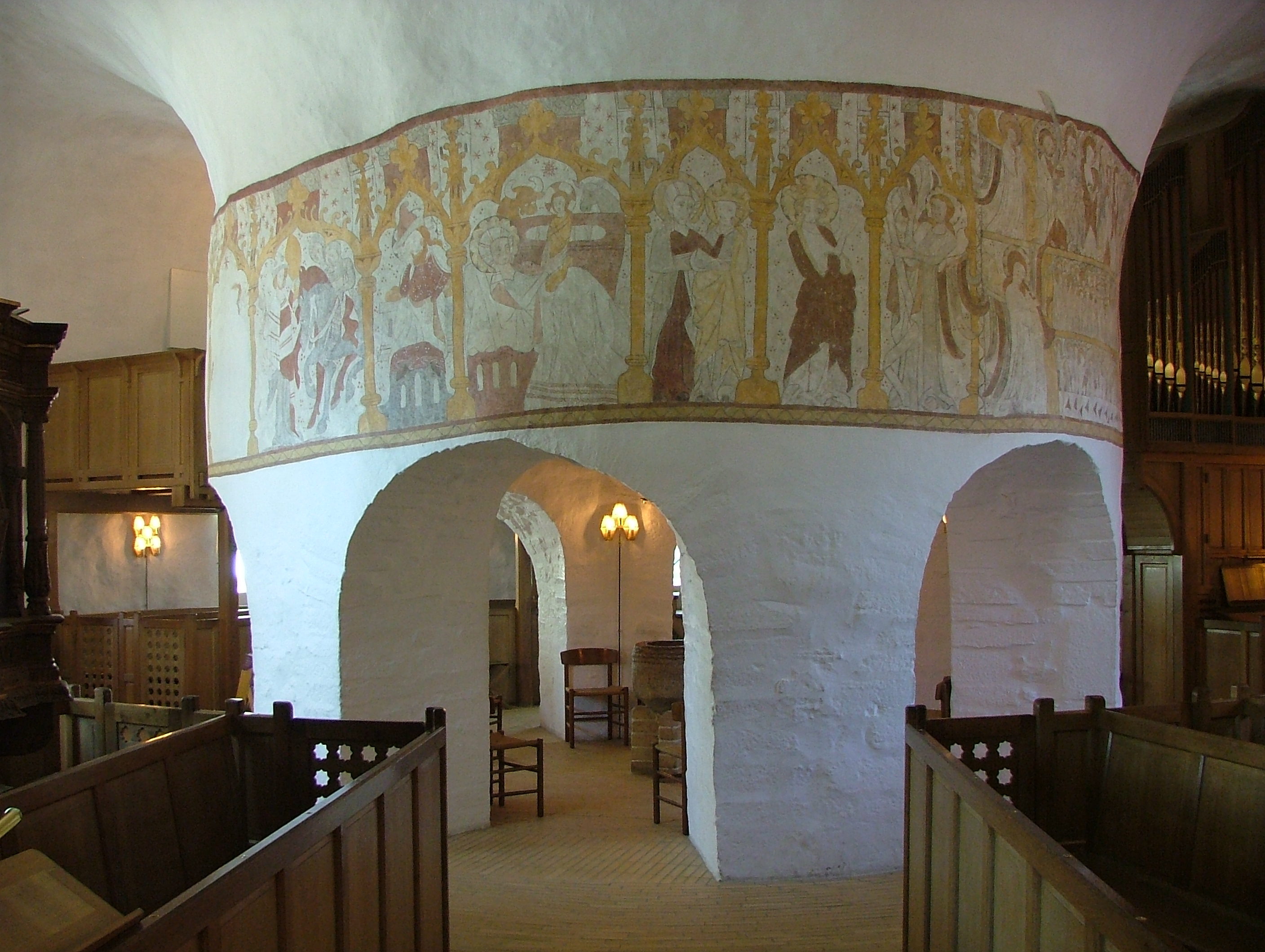 Fresco in Østerlars Rundkirke, Bornholm, Denmark